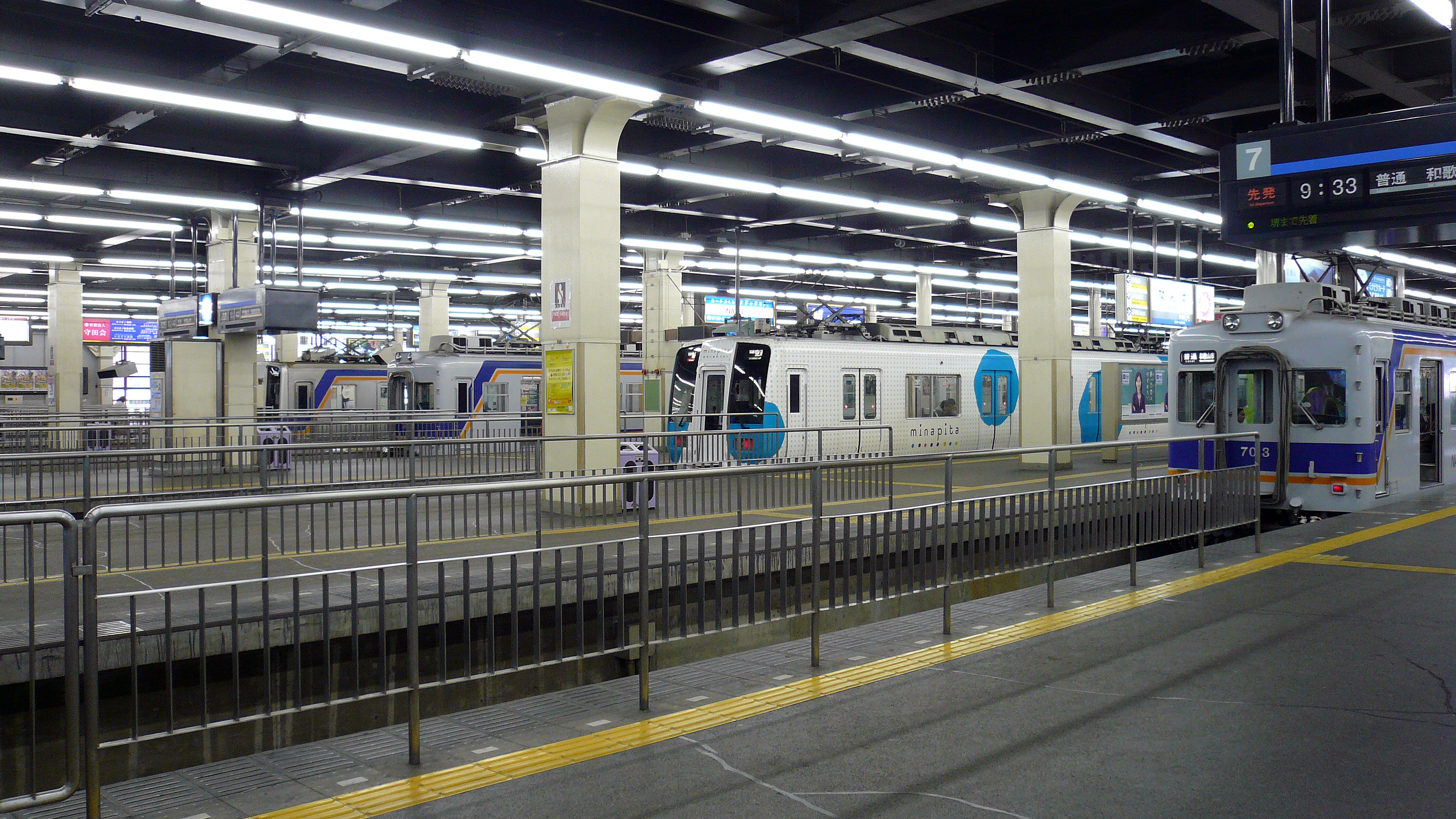 Namba Station of Nankai Electric Railway in Osaka, Japan